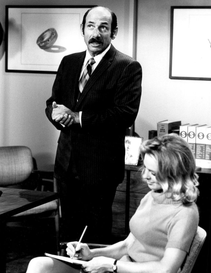 Photo from the television program Arnie. In this scene, former factory worker and newly created executive, Arnie Nuvo (Herschel Bernardi), gives dictation to Angel Tompkins.